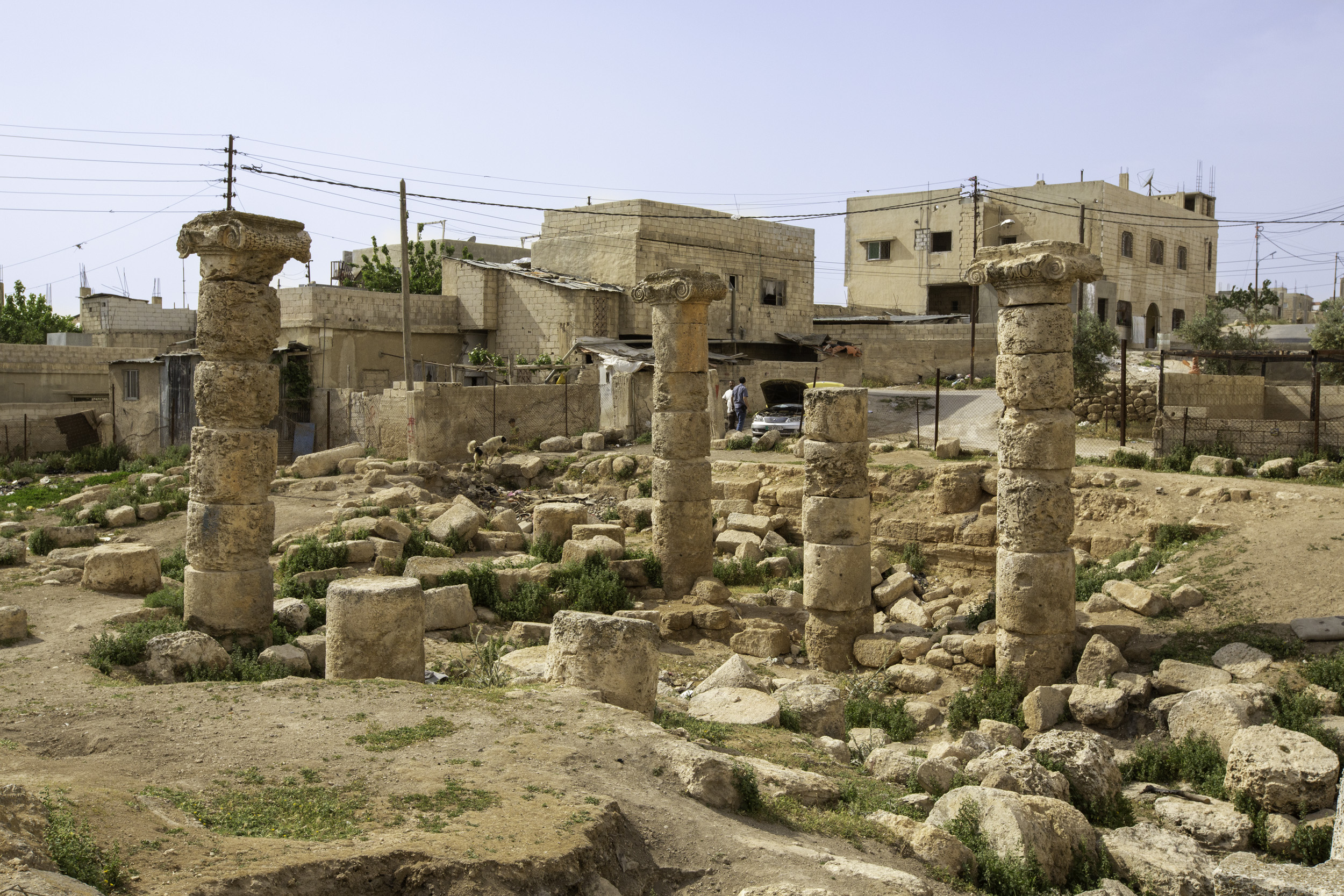 Kherbat as-Souk